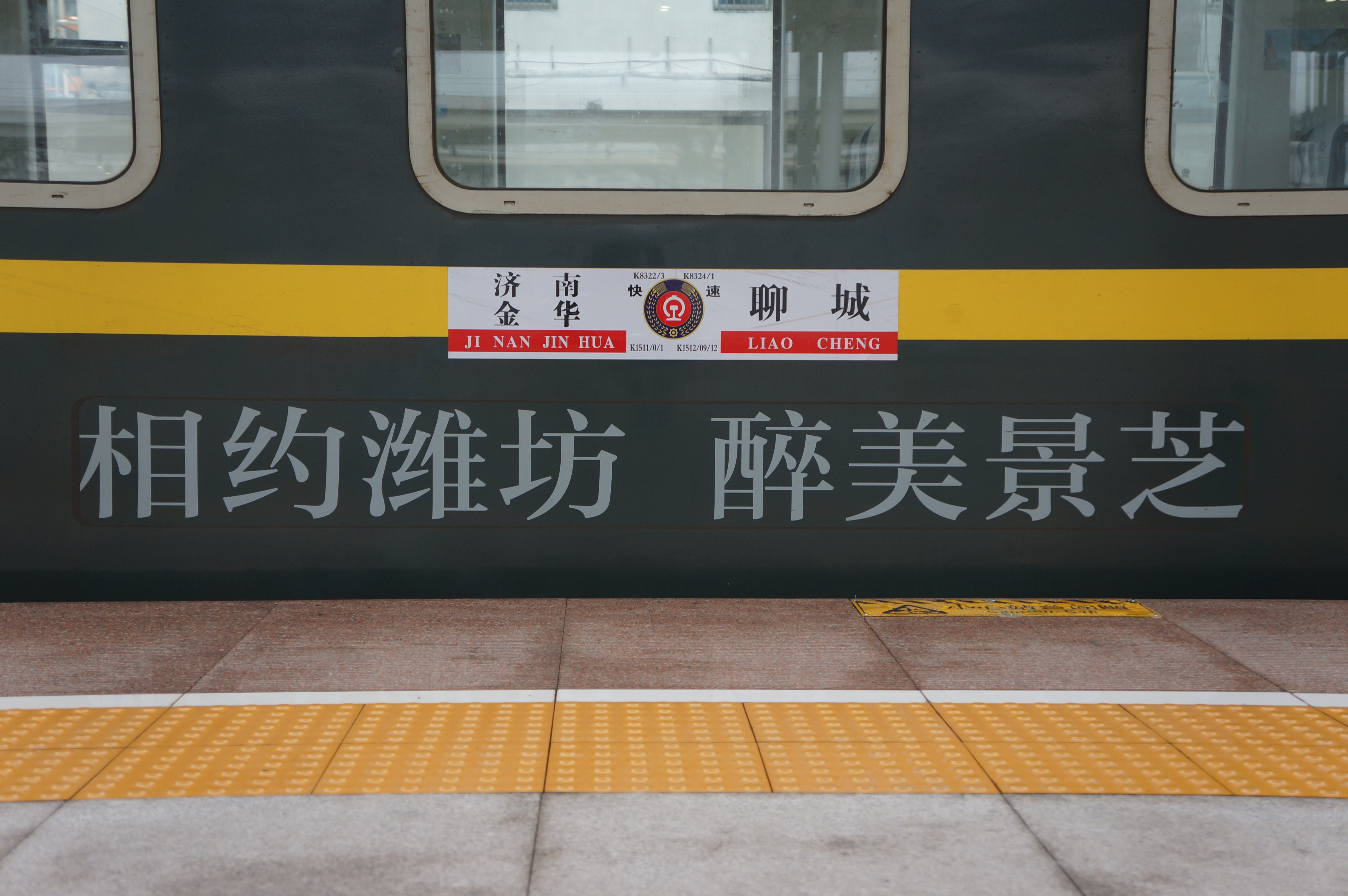 K1509 10 11 12 infoboard in 201901